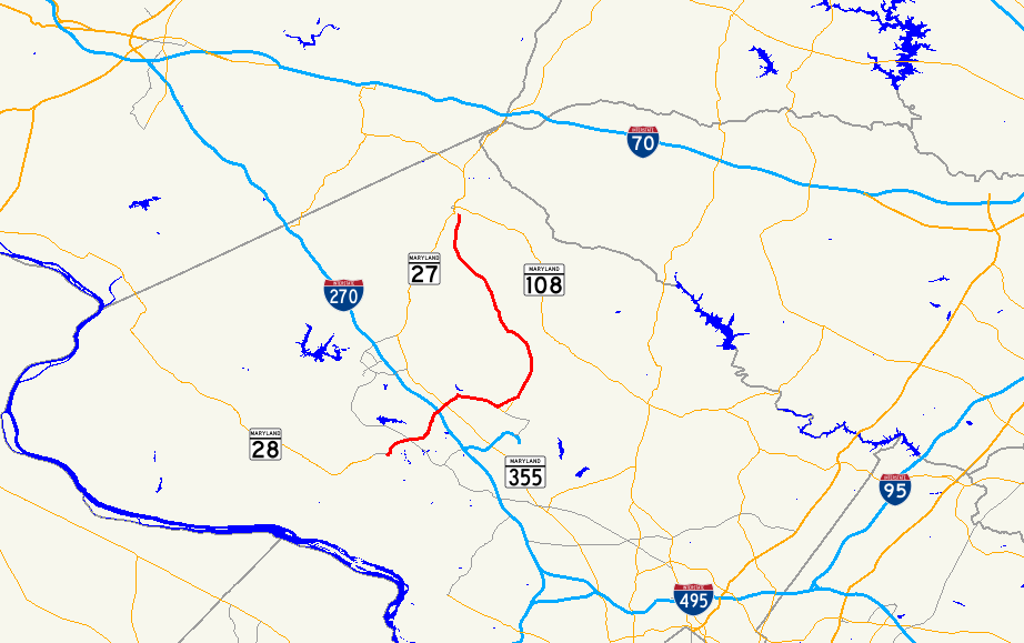 Map of Maryland Route 124